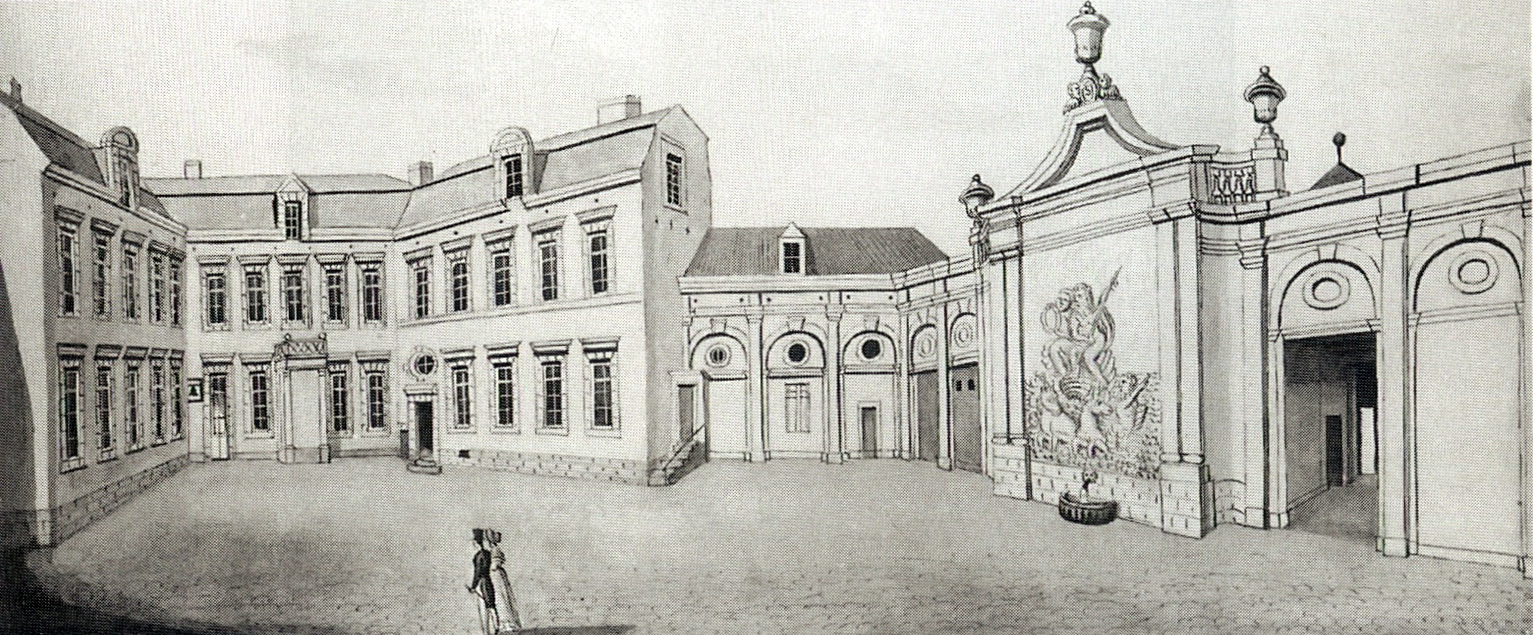 Maastricht, the Netherlands. View of Hof van Tilly, the 18th-century mansion of Claude-Frédéric t'Serclaes de Tilly, governor of Maastricht. Drawing by Philippe van Gulpen (1792-1862).